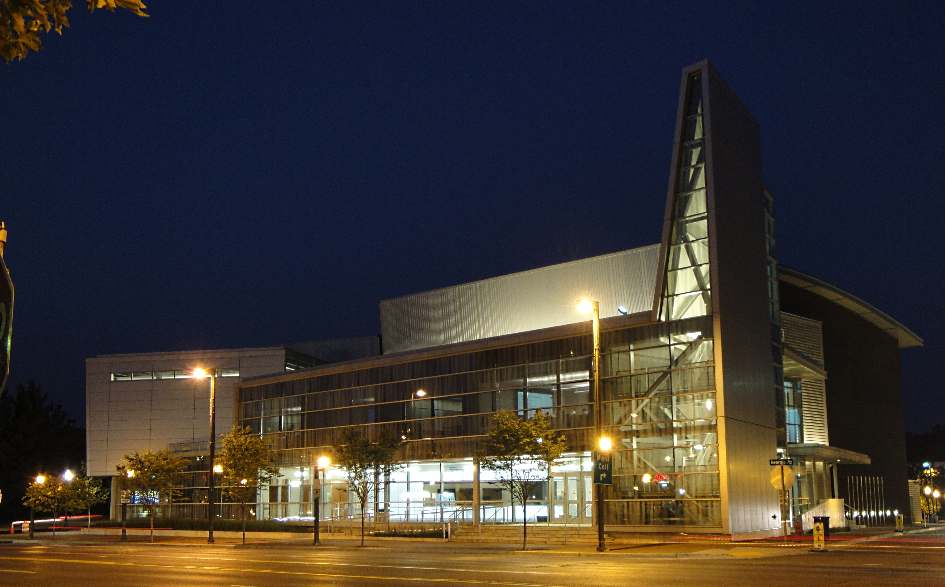 Exterior view of the Cultural Arts Center, Montgomery College, Silver Spring, Maryland.